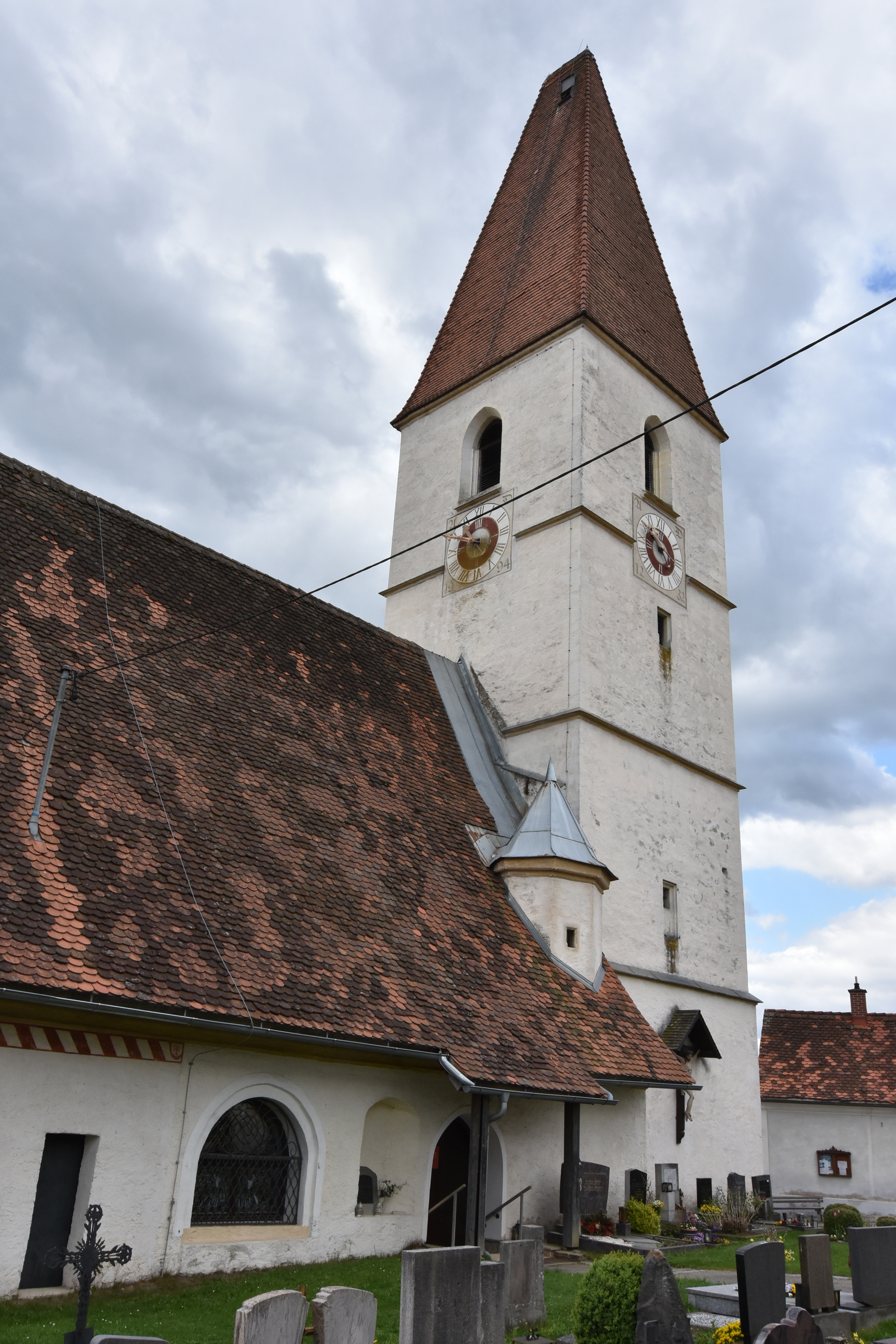 Church Filialkirche Hl. Johannes der Täufer, Mürzhofen